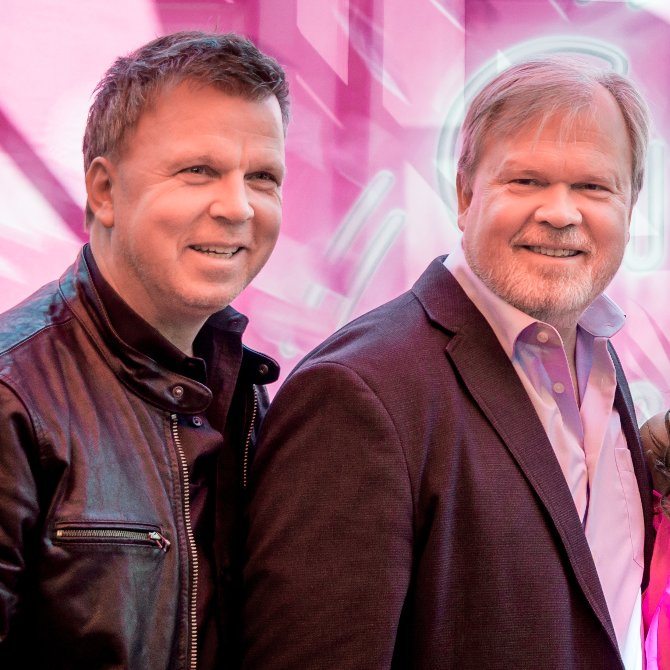 Swedish Eurovision winner ever presented on ABBA the Museum in conjunction with the opening of the exhibition 'Good Evening Europe!' in May 7, 2016. From left: Richard och Per Herrey (Herreys 1984), Carola Häggkvist (1991), Måns Zelmerlöw (2015), Loreen (2012) and ABBAs Björn Ulvaeus (1974).